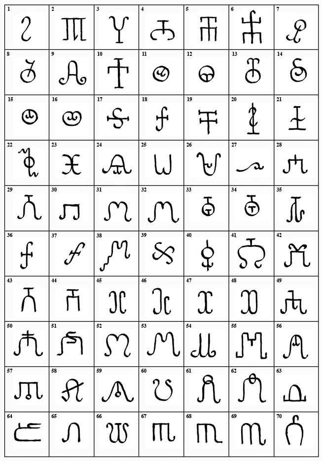 Kabardian families tamga